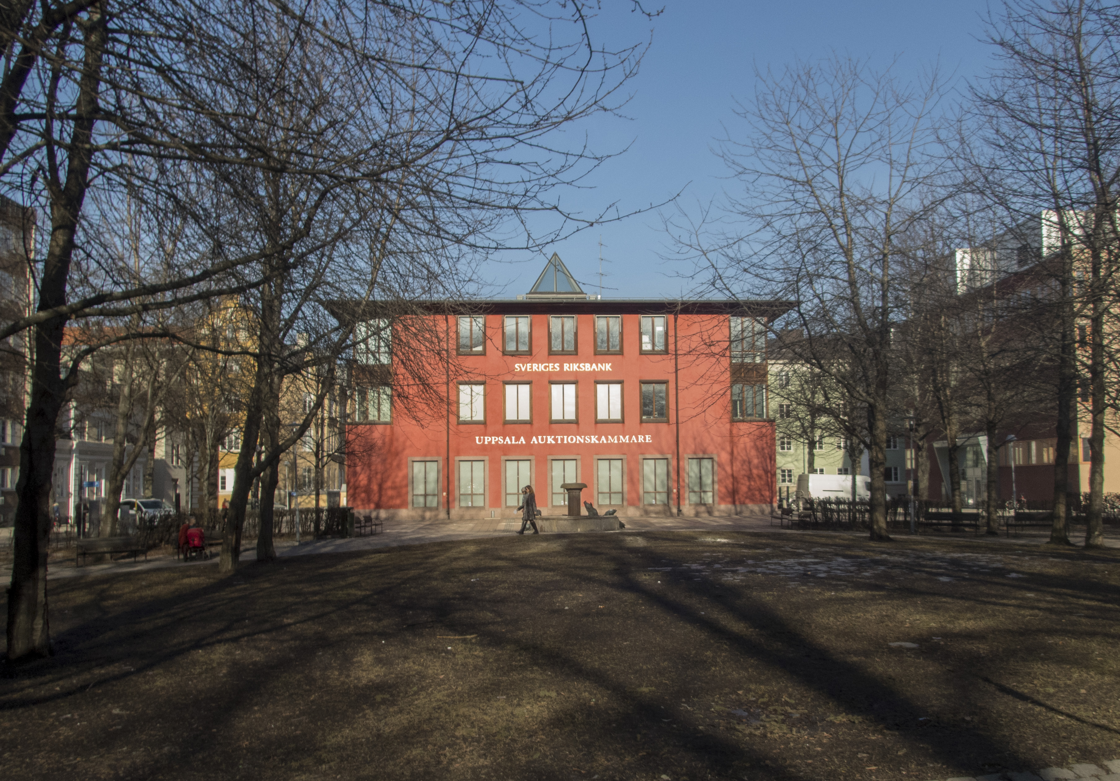 Nya Riksbankshuset, Uppsala. Senare Uppsala Auktionskammare. Byggår 1989. Arkitekt Carl Nyrén